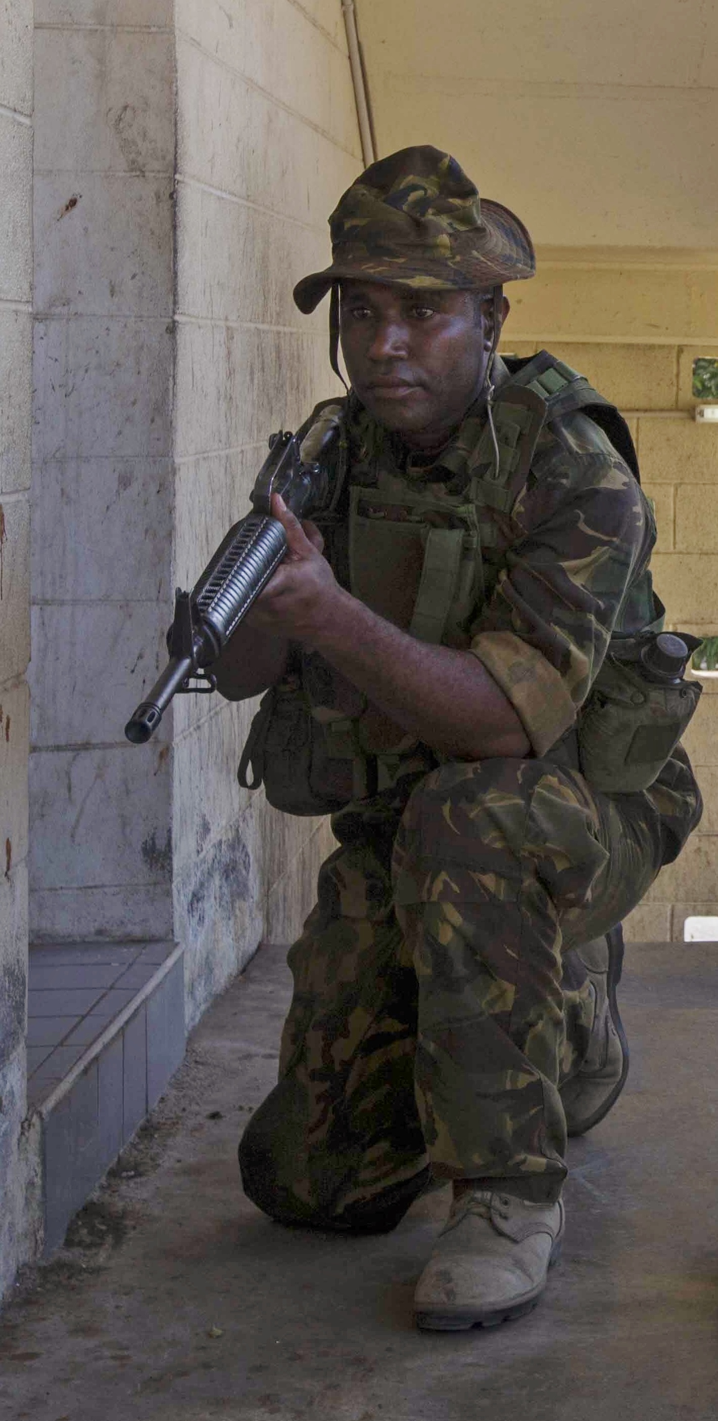 U.S. Marines with Task Force Koa Moana, and the Papua New Guinea Defence Force, conduct ladder well training during Exercise Koa Moana, Taurama Barracks, Papua New Guinea, June 20, 2016. Throughout the deployment the Marines and Sailors with the task force will share infantry, law enforcement and engineering skills with host nations to strengthen relationships and interoperability in the Asia-Pacific region. (U.S. Marine Corps imagery by MCIPAC Combat Camera Lance Cpl. Jesus McCloud/ Released)